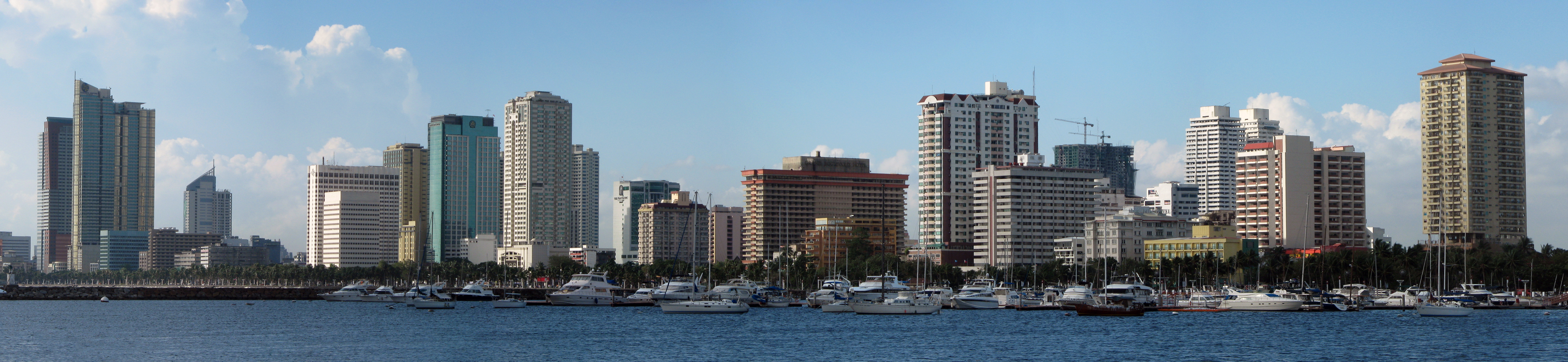 Skyline of the City of Manila, seen from the Cultural Center of the Philippines